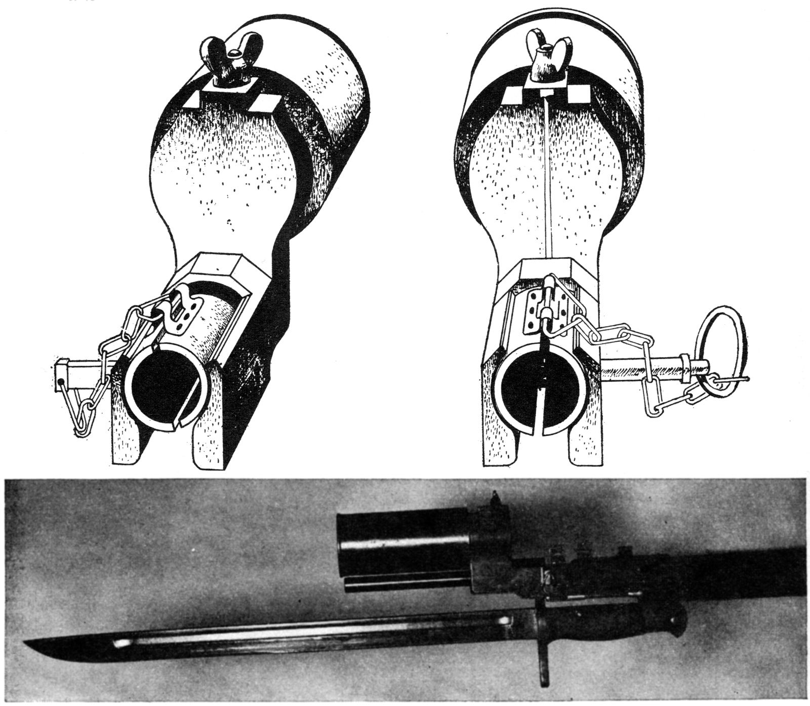 A Japanese Type 100 grenade launcher on a 6.5 mm rifle (bottom) and diagrams of the 6.5 mm and 7.7 mm versions of the Type 100 grenade launcher